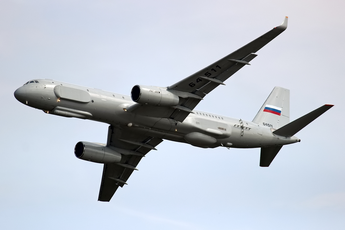 Tupolev Tu-214R inflight